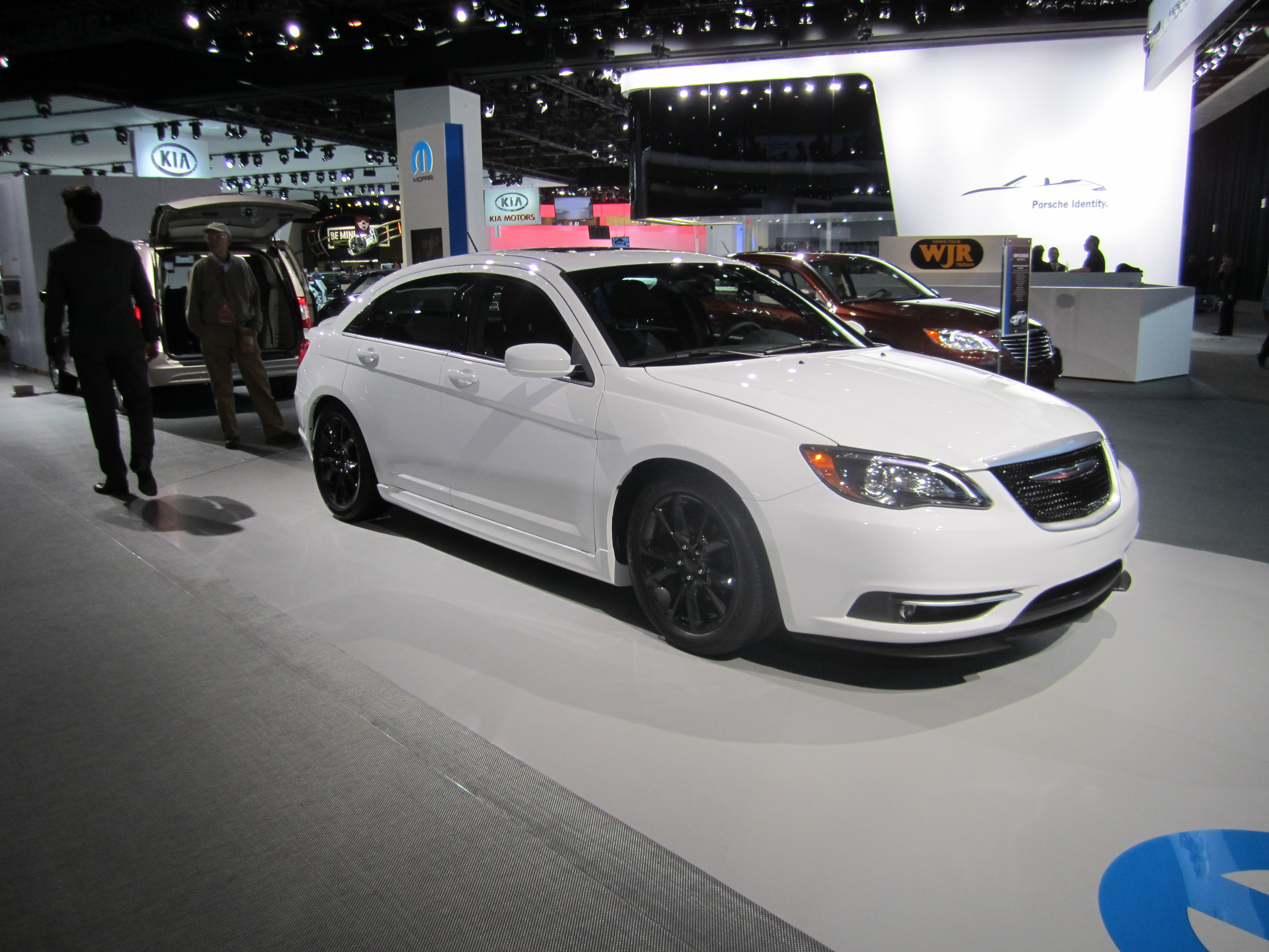 2012 North American International Auto Show Detroit, Michigan